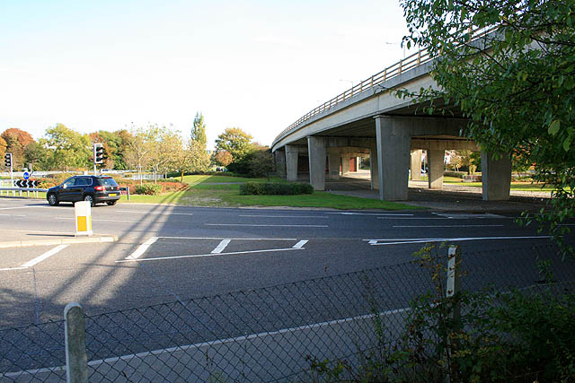 Fleet's Corner Flyover Carrying the A3049 over the large, busy roundabout.